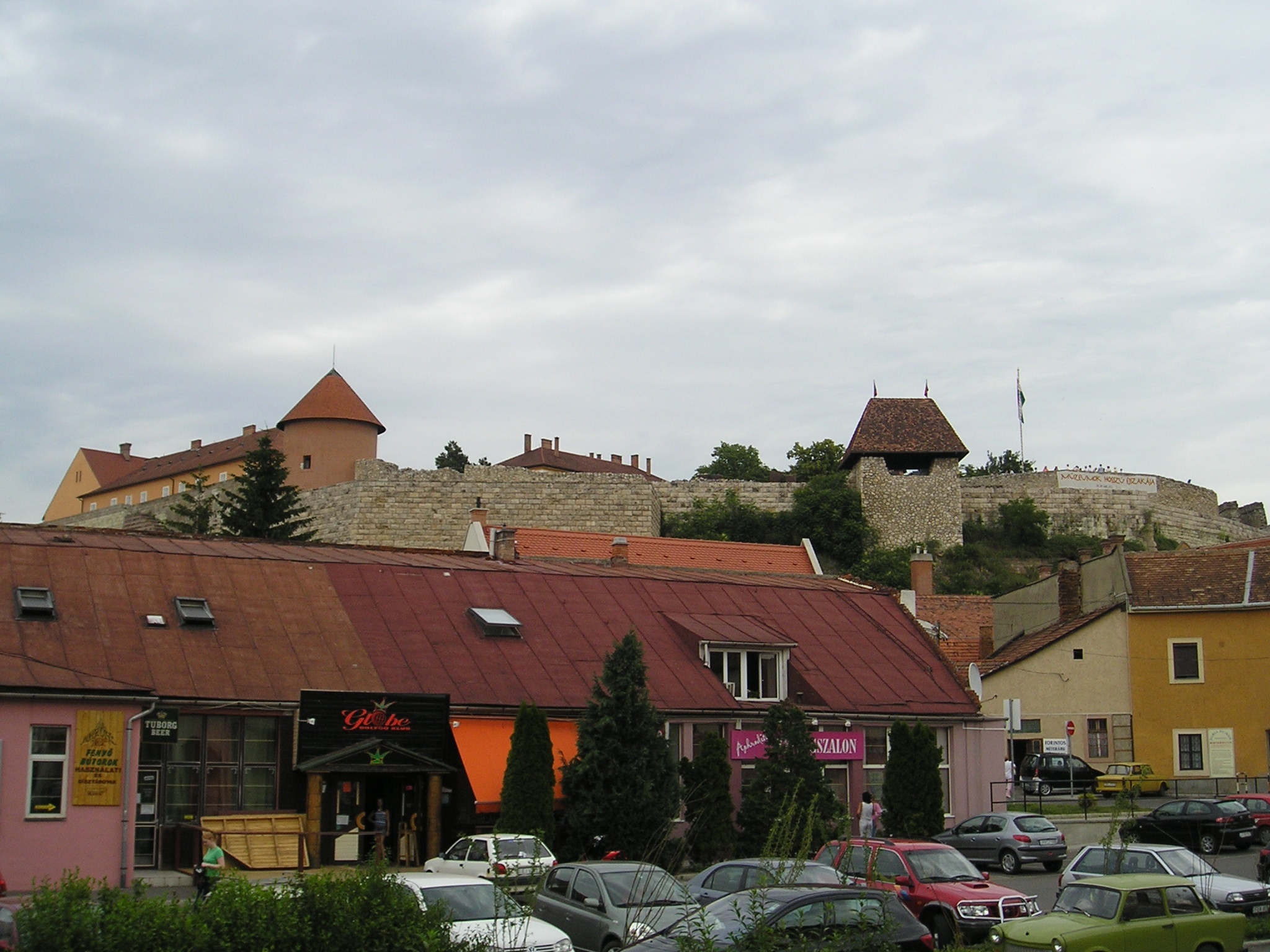 Eger, Hungary - a view from the town's centre on the castle.